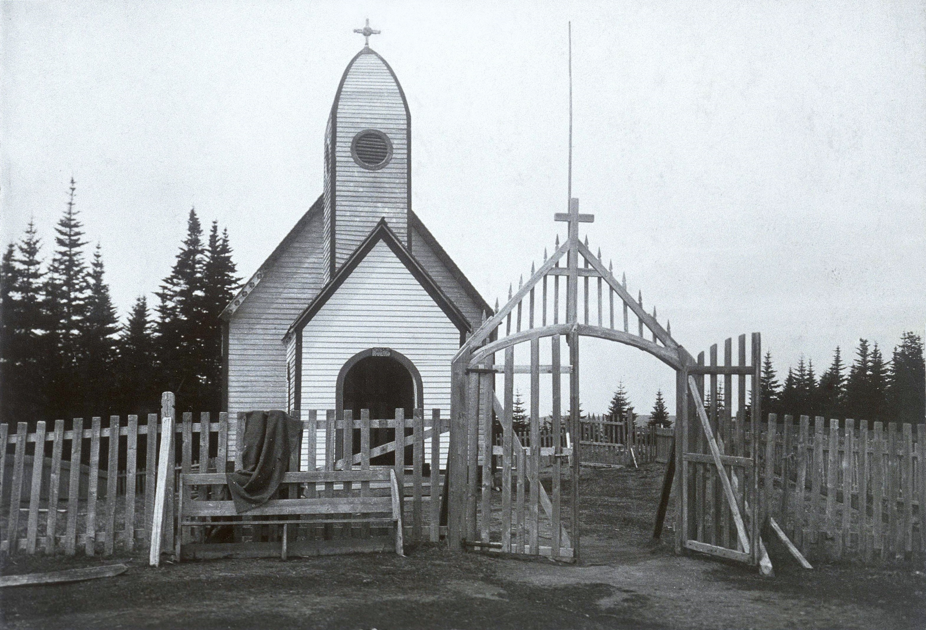 Chapel of the Micmacs, Conne River